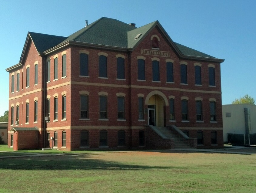 Barnard Elementary School